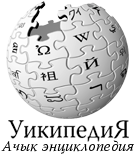 Logo of the Kirghiz Wikipedia